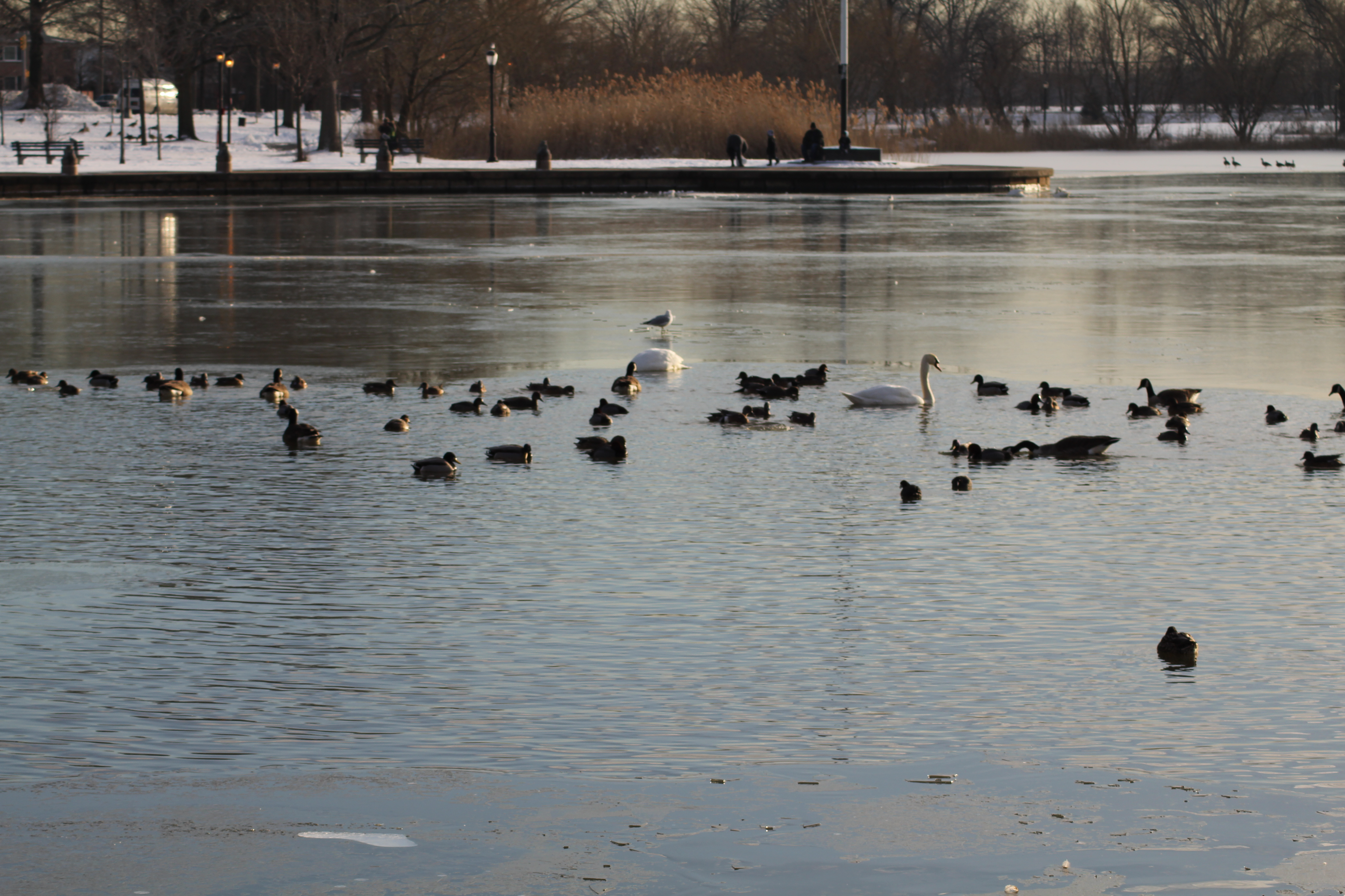 Baisley Pond, which is located in the South Jamaica neighborhood of the Borough of Queens in New York City, hosts a large and diverse population of waterfowl in winter.